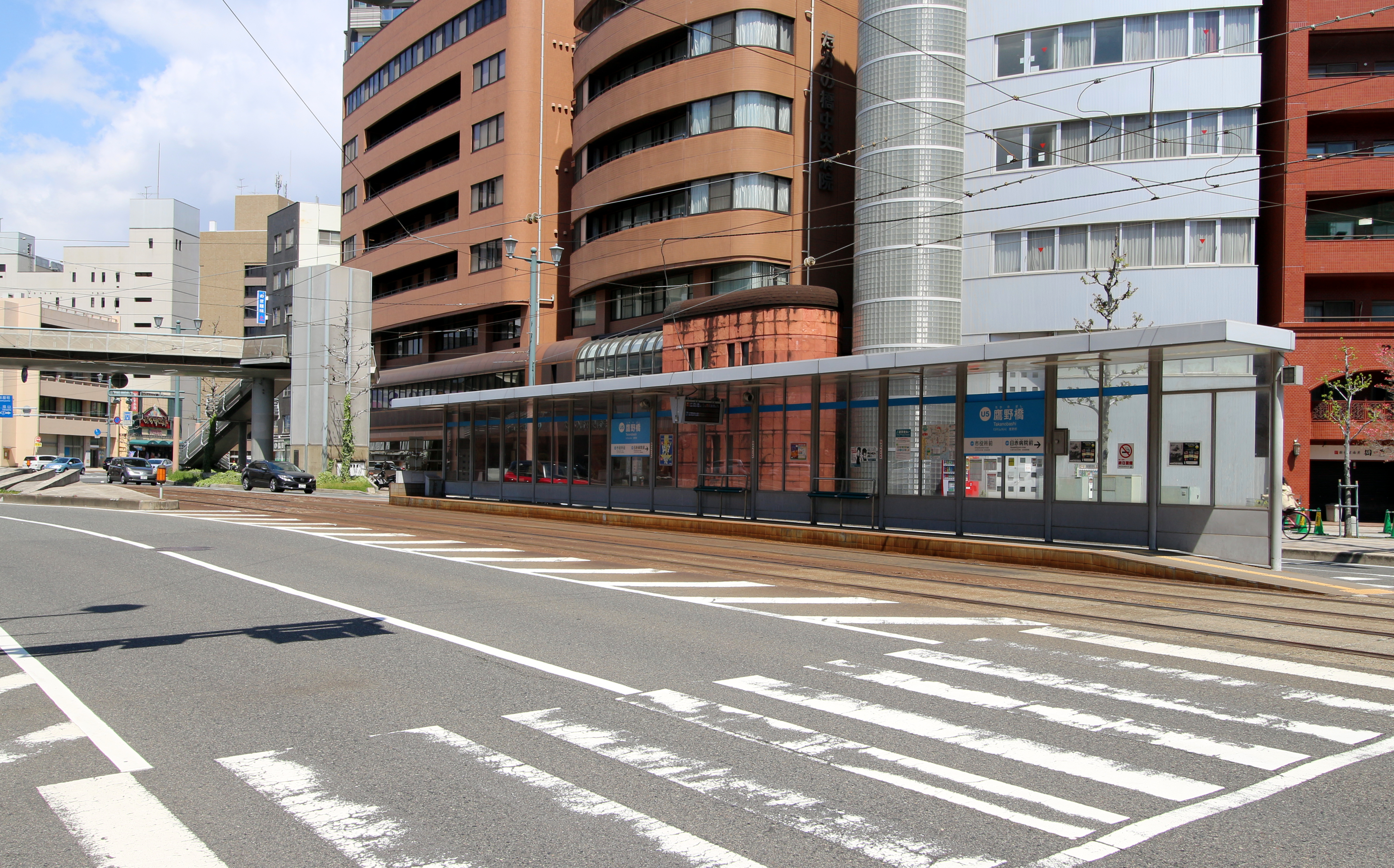 Takanobashi Station in Hiroshima, Japan.